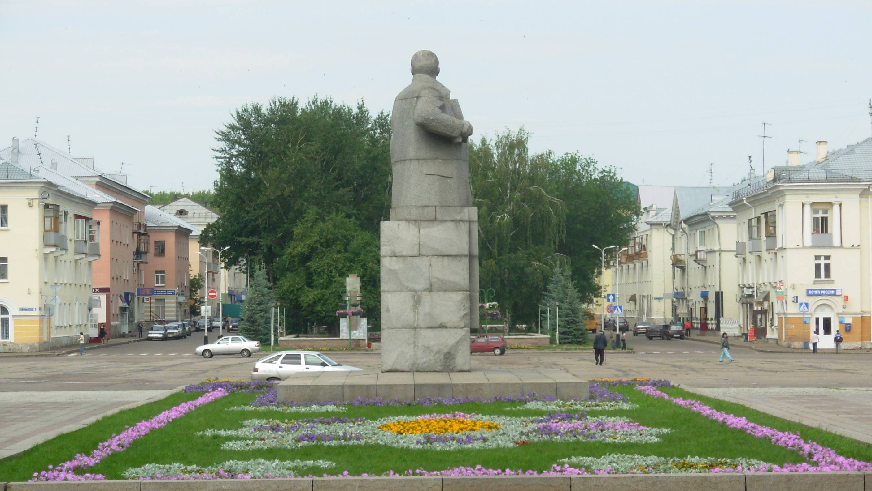 street Salavat Russia